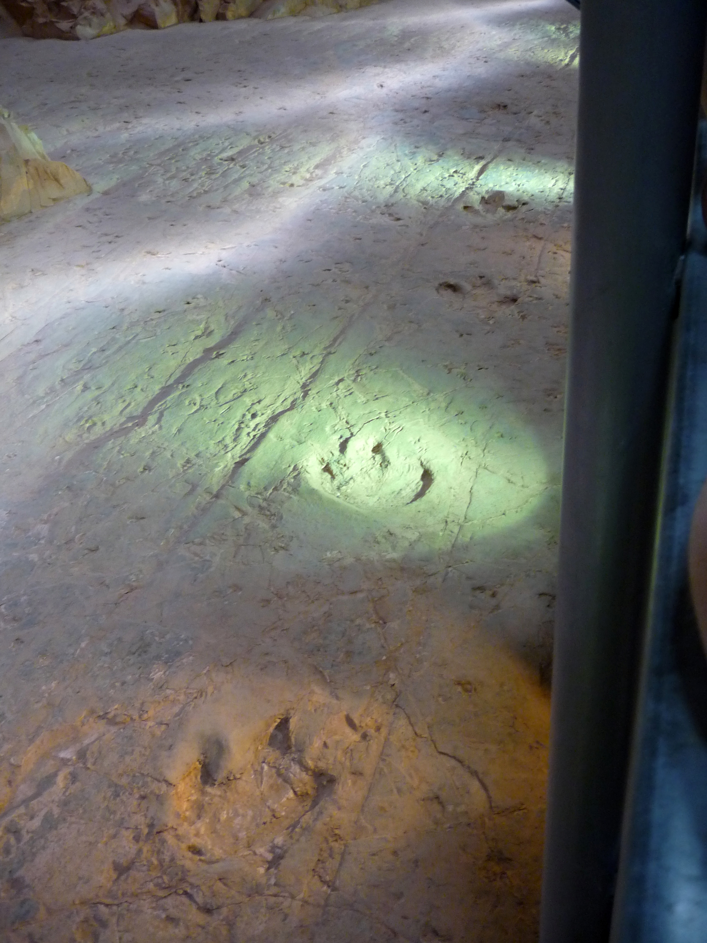 Photo of Lark Quarry Dinosaur Trackways